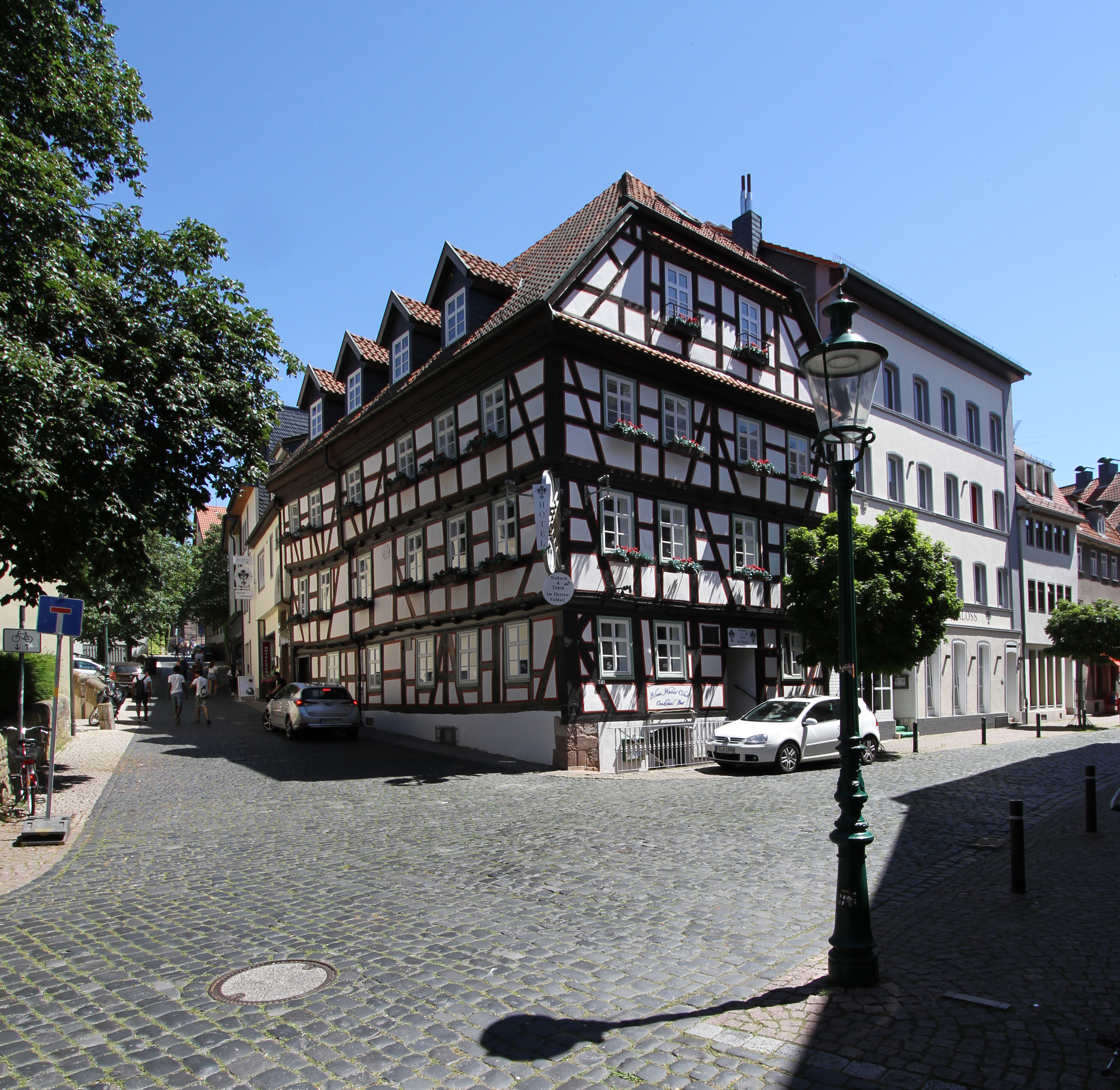 Birthplace of Ferdinand Braun in Fulda